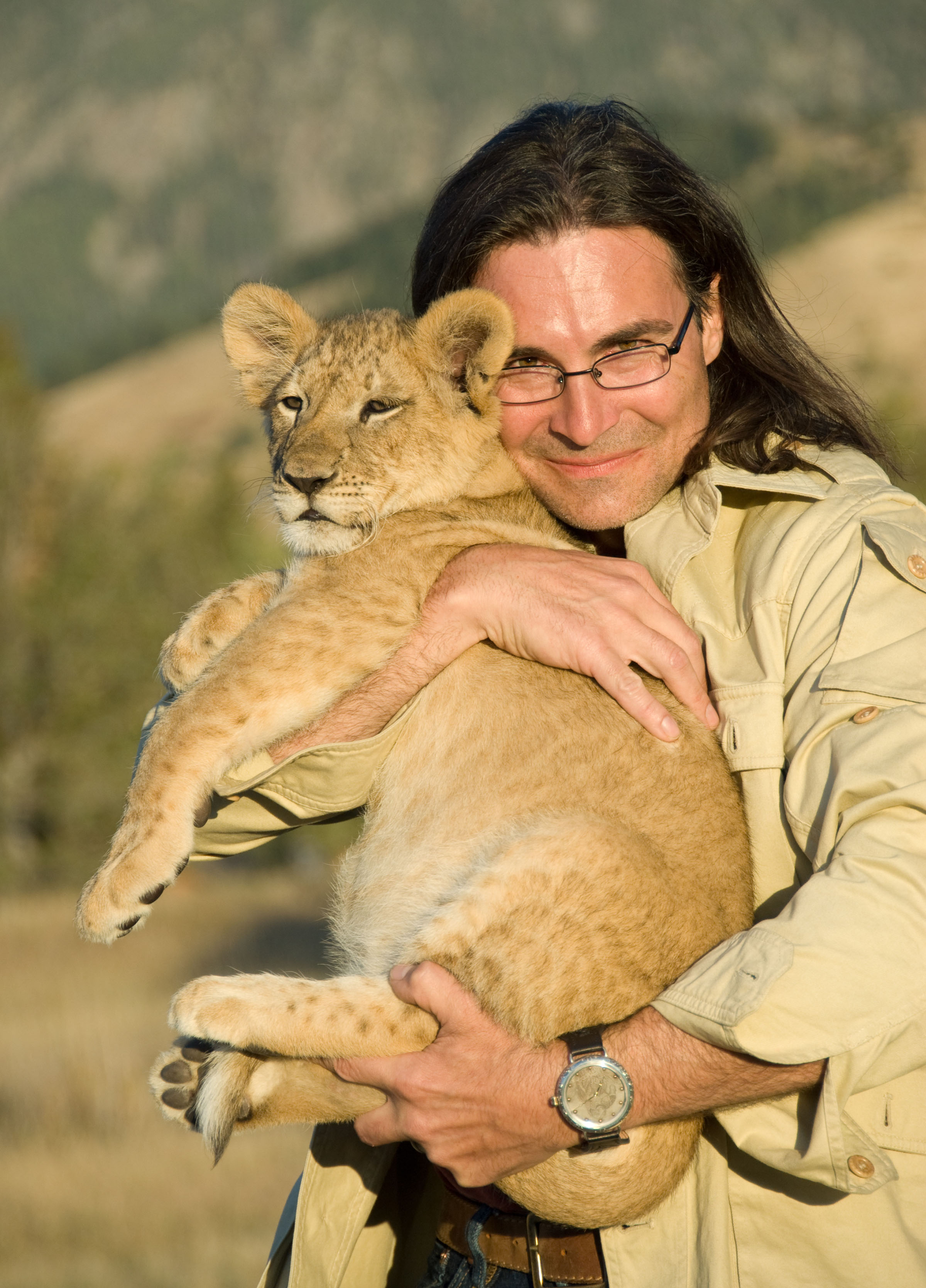 John Banovich (b.1964) is an American contemporary oil painter known internationally for his large, dramatic portrayals of iconic wildlife. Today, Banovich’s work is admired and collected globally by prominent politicians, entertainers, business leaders and art collectors. His work can be found in private collections, corporate offices and museums throughout the world